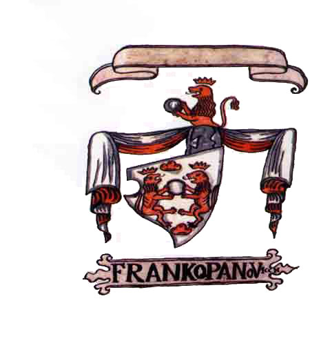 Coat of arms of House of Frankopan (Croatia)